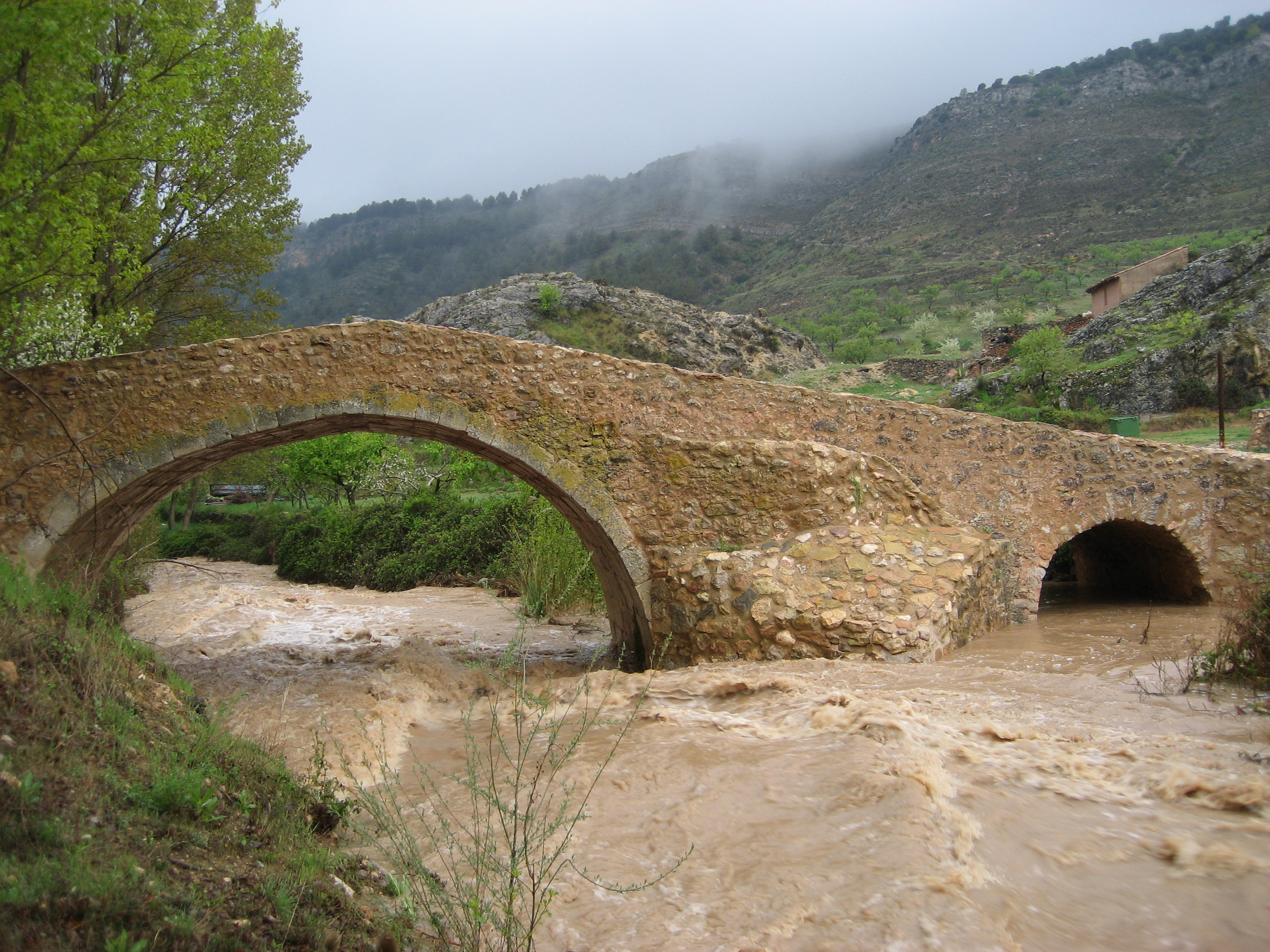 Puente romano, Bijuesca